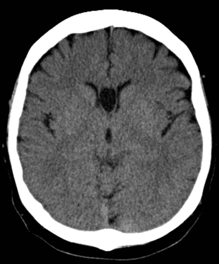 Cave of septum pellucidum in Computertomography